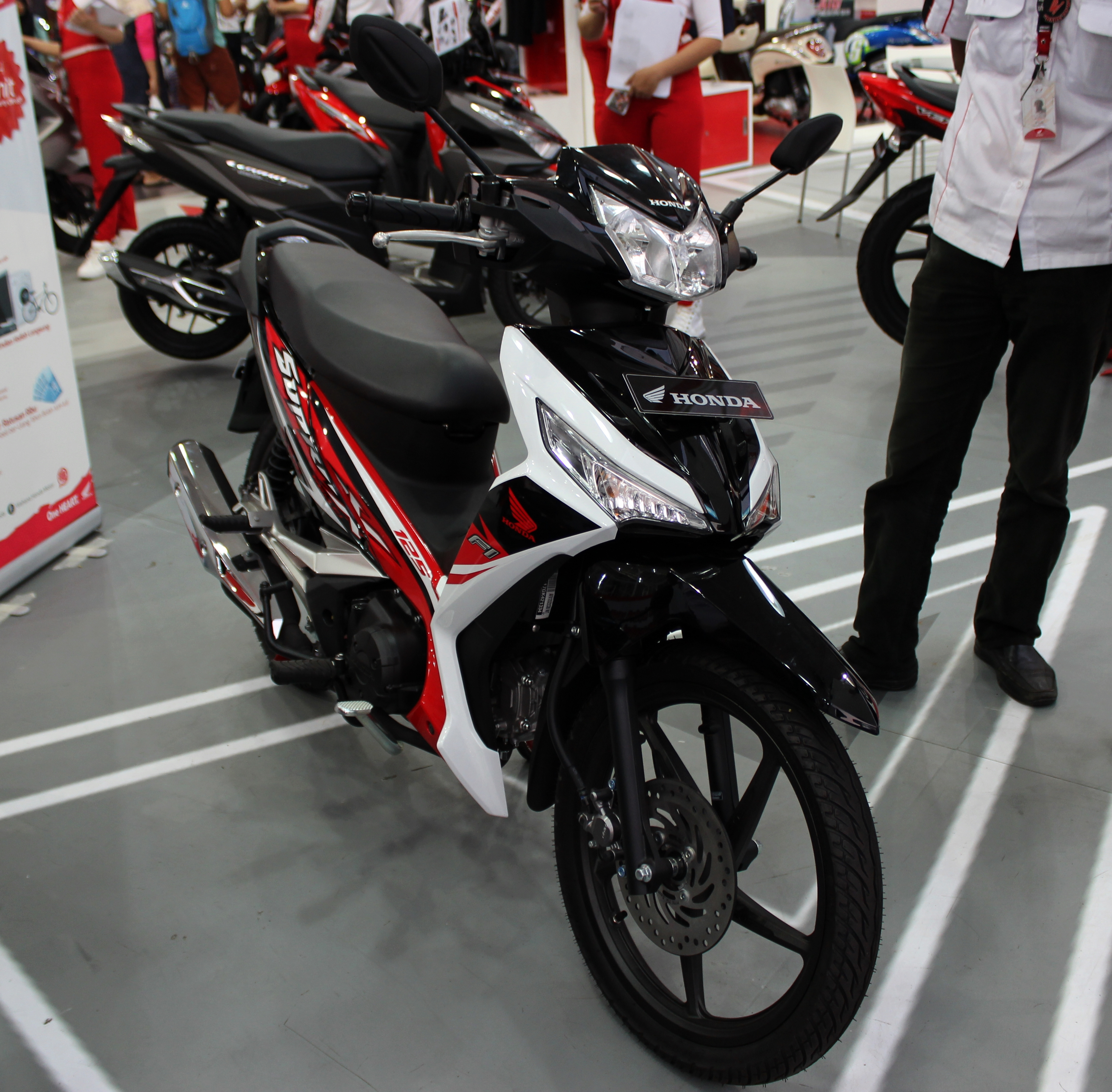 A Honda Supra X 125 FI photographed in Jakarta Fair 2016, Jakarta, Indonesia on June 21, 2016.